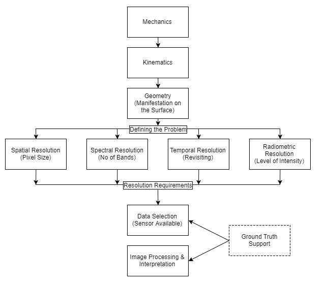 A flow chart showing how remote sensing tackles geological problem, inspired by Gupta (1991)